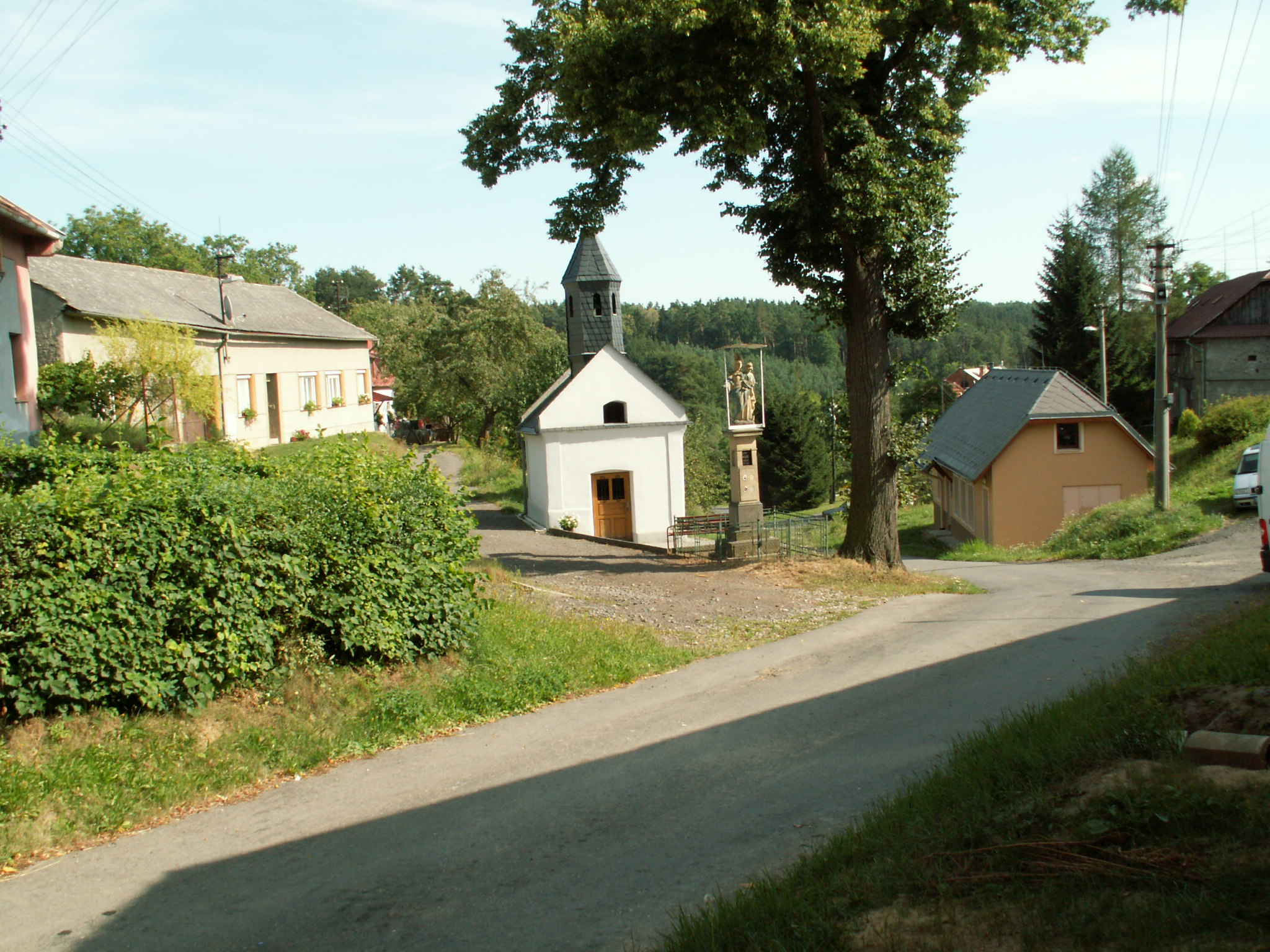 Lhotka (Czech Republic, Prerov District)